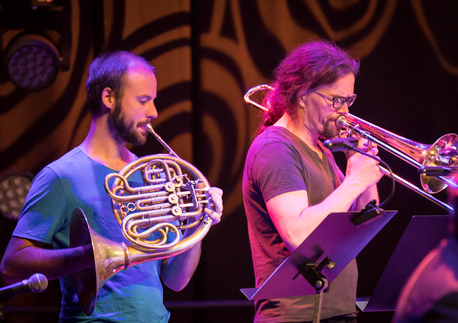 Daniel W. Kjellesvik (left) and Erik Johannessen (right) with Trondheim Jazz Orchestra, Eirik Hegdal and Joshua Redman at the stage of Kongsberg Musikkteater. The concert was part of Kongsberg Jazzfestival and took place on 06. July 2017. Solist: Joshua Redman (saxophone) Artistic director: Eirik Hegdal (saxophone) Trondheim Jazz Orchestra: Trine Knutsen (flute) Stig Førde Aarskog (clarinet) Eivind Lønning (trumpet) Stein Villanger (french horn) Daniel Weiseth Kjellesvik (french horn) Tor Haugerud (drums) Erik Johannessen (trombone) Ola Kvernberg (violin) Marianne Baudouin Lie (cello) Øyvind F. Engen (cello) Nils Olav Johansen (guitar) Ole Morten Vågan (double bass)